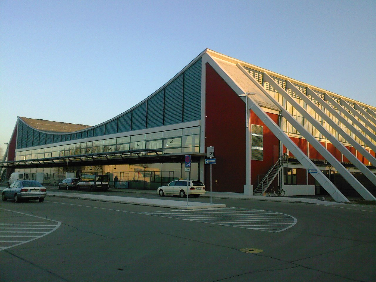 Flughafen Memmingen, Allgäu Airport Memmingen - Terminal building